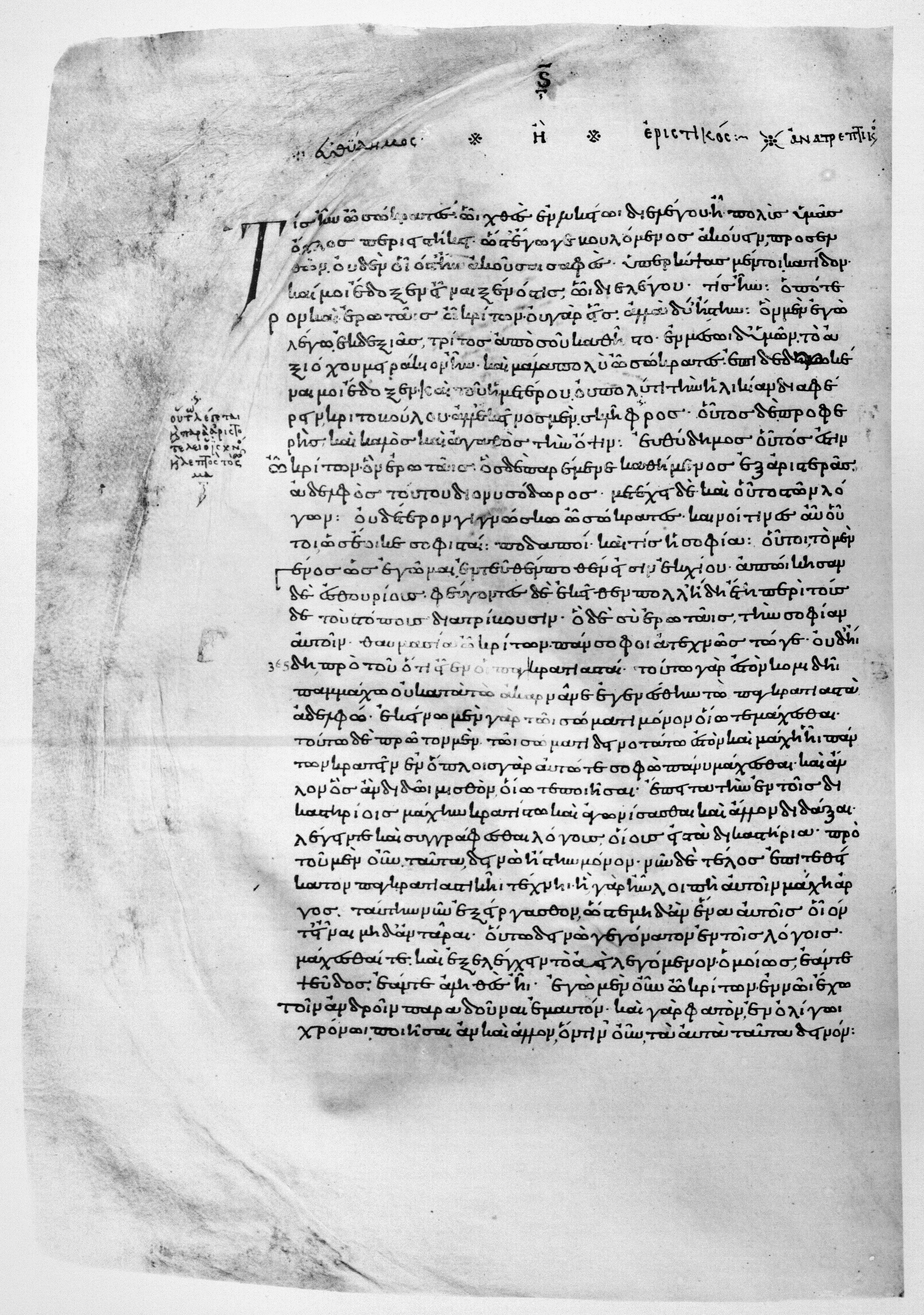 Page of the Codex Oxoniensis Clarkianus 39 (Clarke Plato). Dialogue Euthydemos.